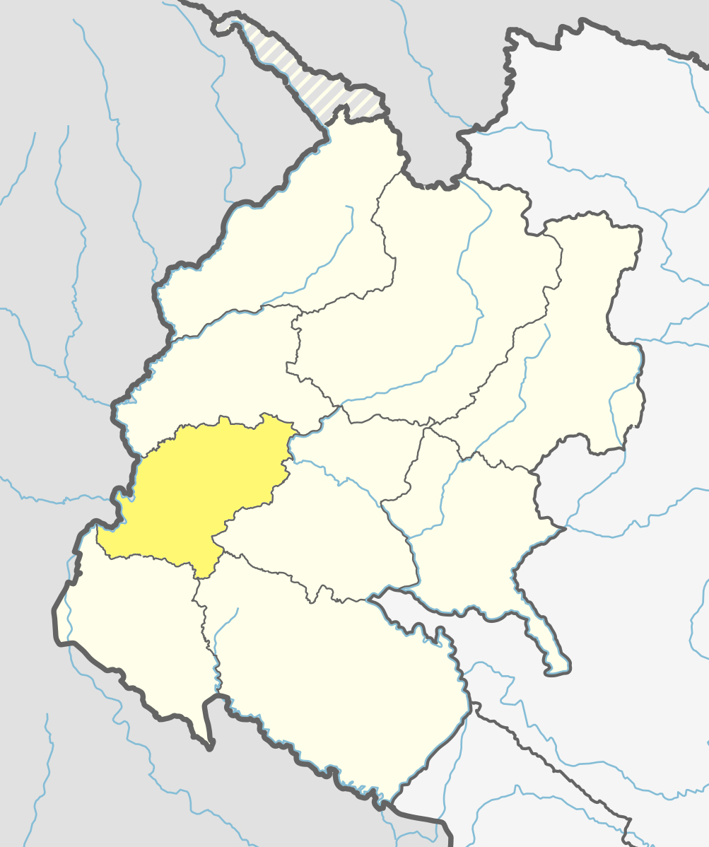 Dadeldhura District